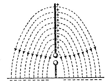 Figure showing electric field lines around a vertical antenna over ground.